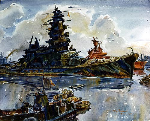 The former Japanese battleship Nagato after the BAKER blast. ("Baker", an event of Operation Crossroads, a nuclear weapon test series conducted by the United States in the summer of 1946, quote from )